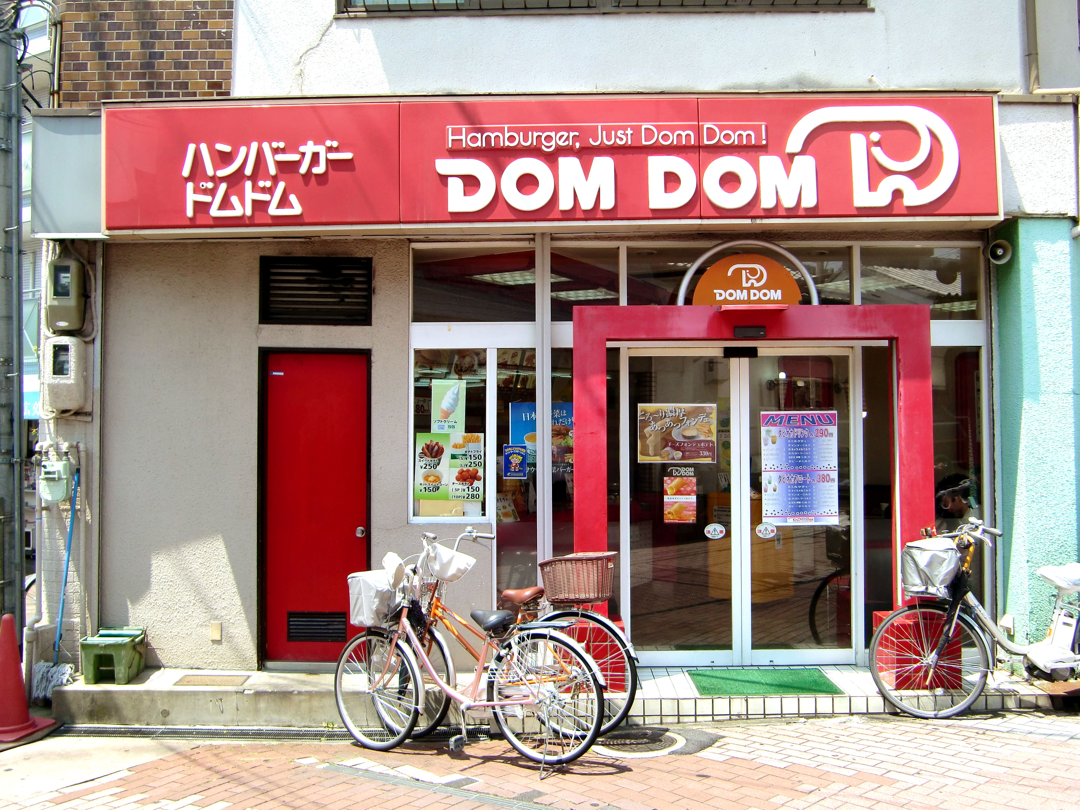 DOMDOM Sojiji FC, 6-28 Nakasojijicho Ibaraki-City Osaka Japan.